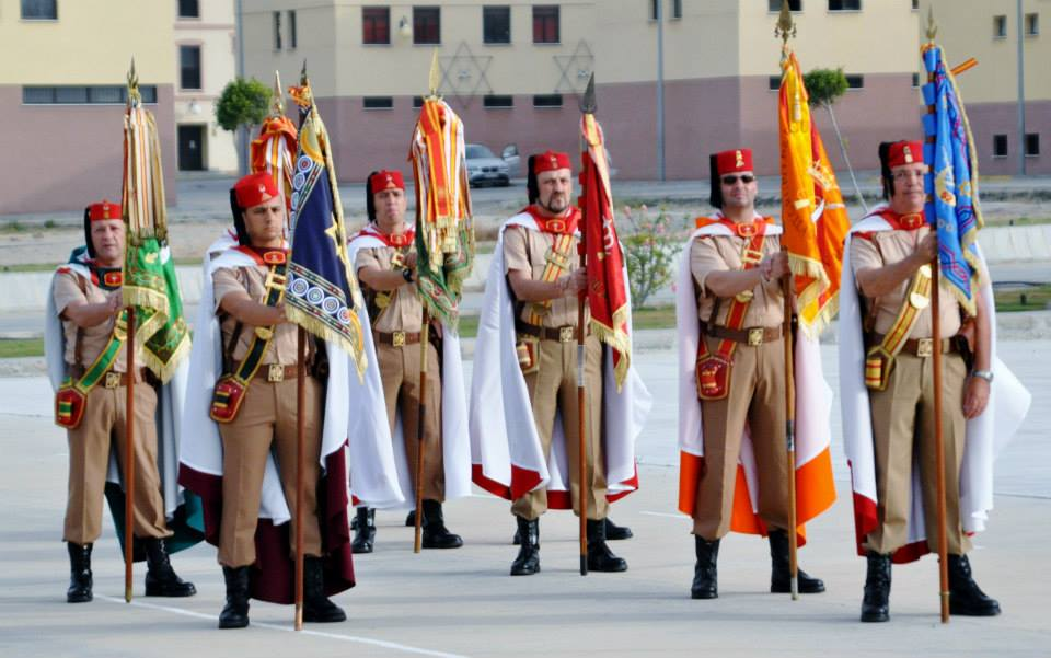 grupo de regulares